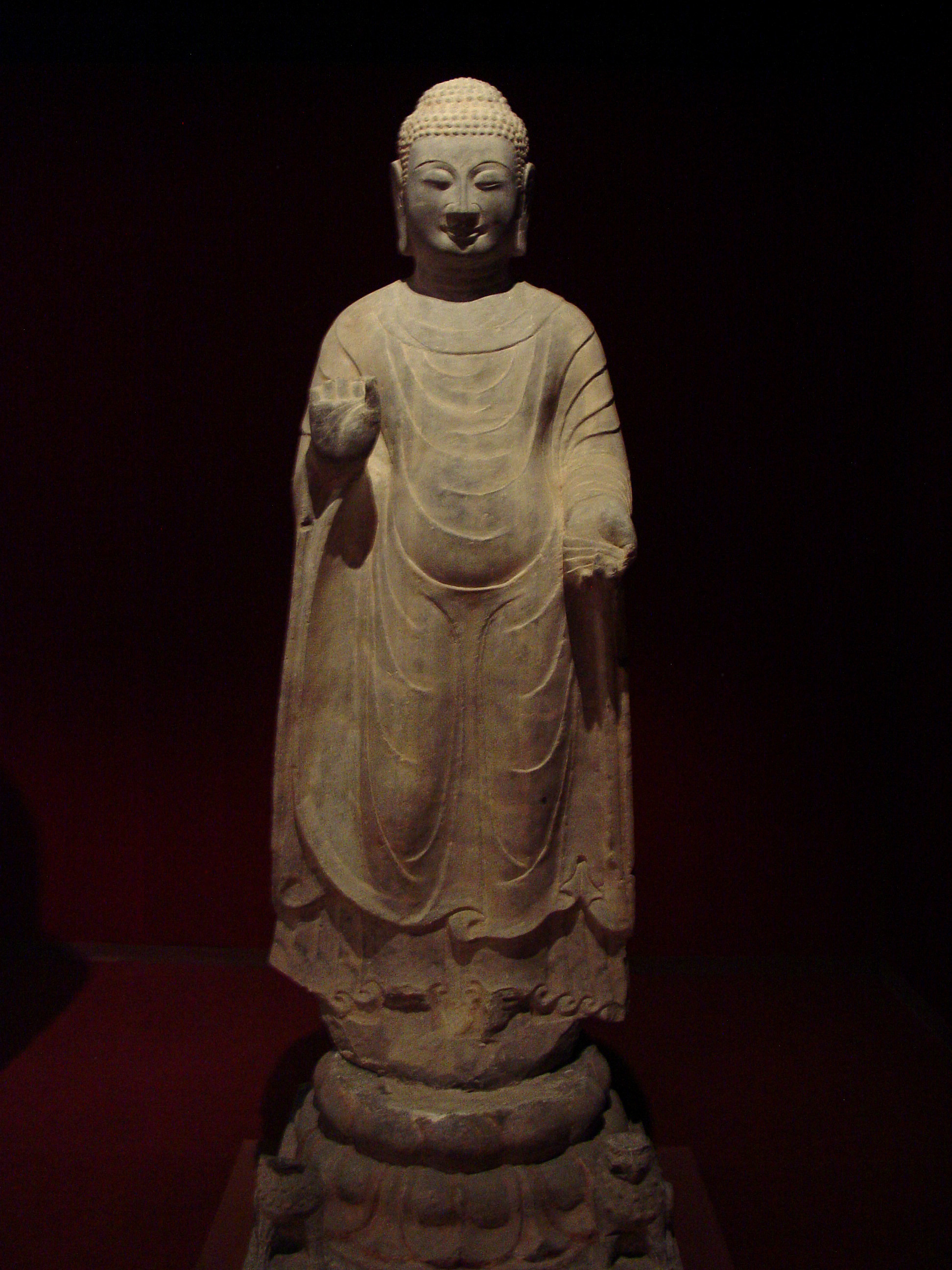 Standing Buddha. Northern Zhou Dynasty, Beilin Museum, Xi'an Here is an example from a great artist. The legs, and indeed the entire figure, are handled naturally.